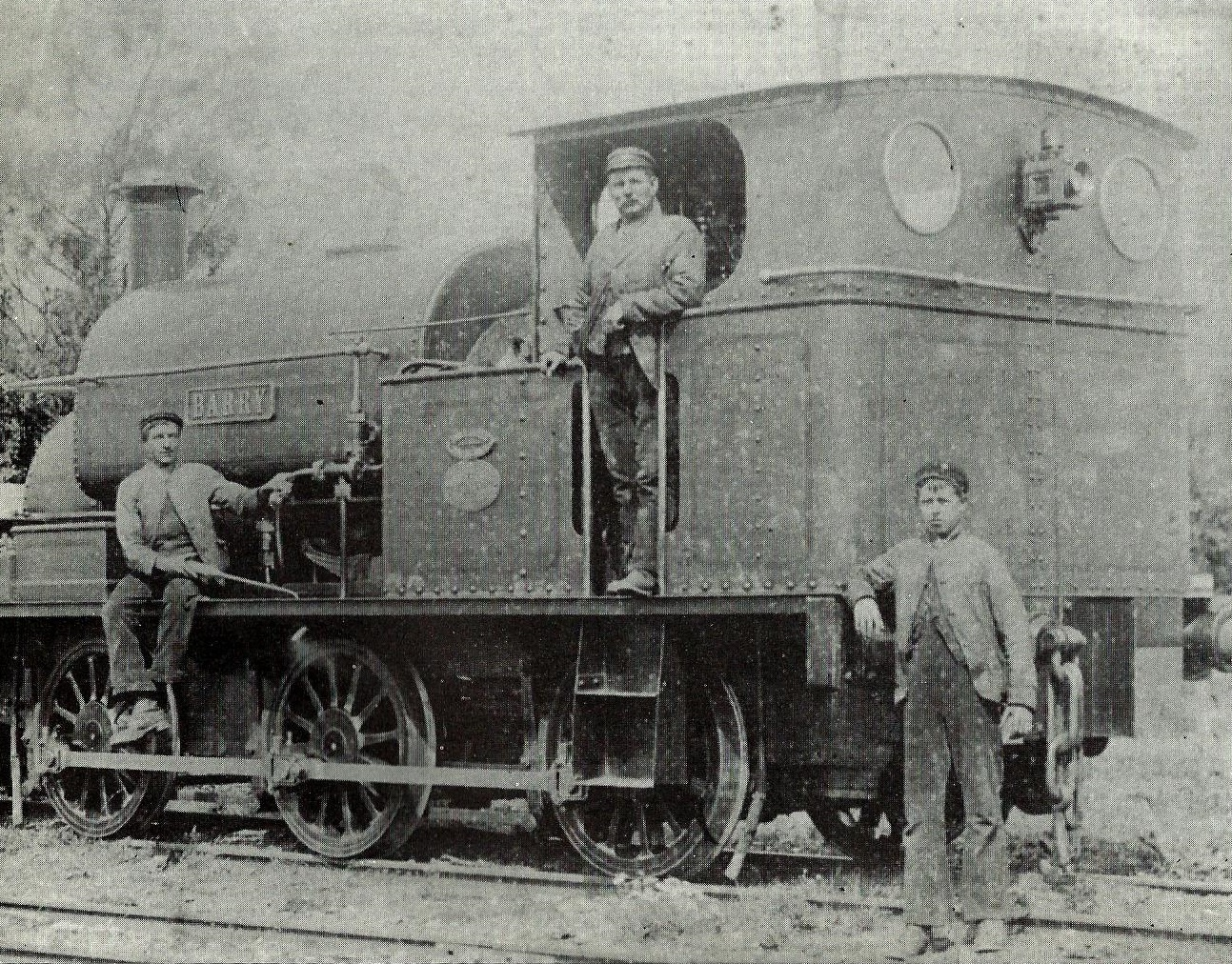 Saddle tank 0-6-0 locomotive 'Barry' on Porthkerry loop line in 1898.